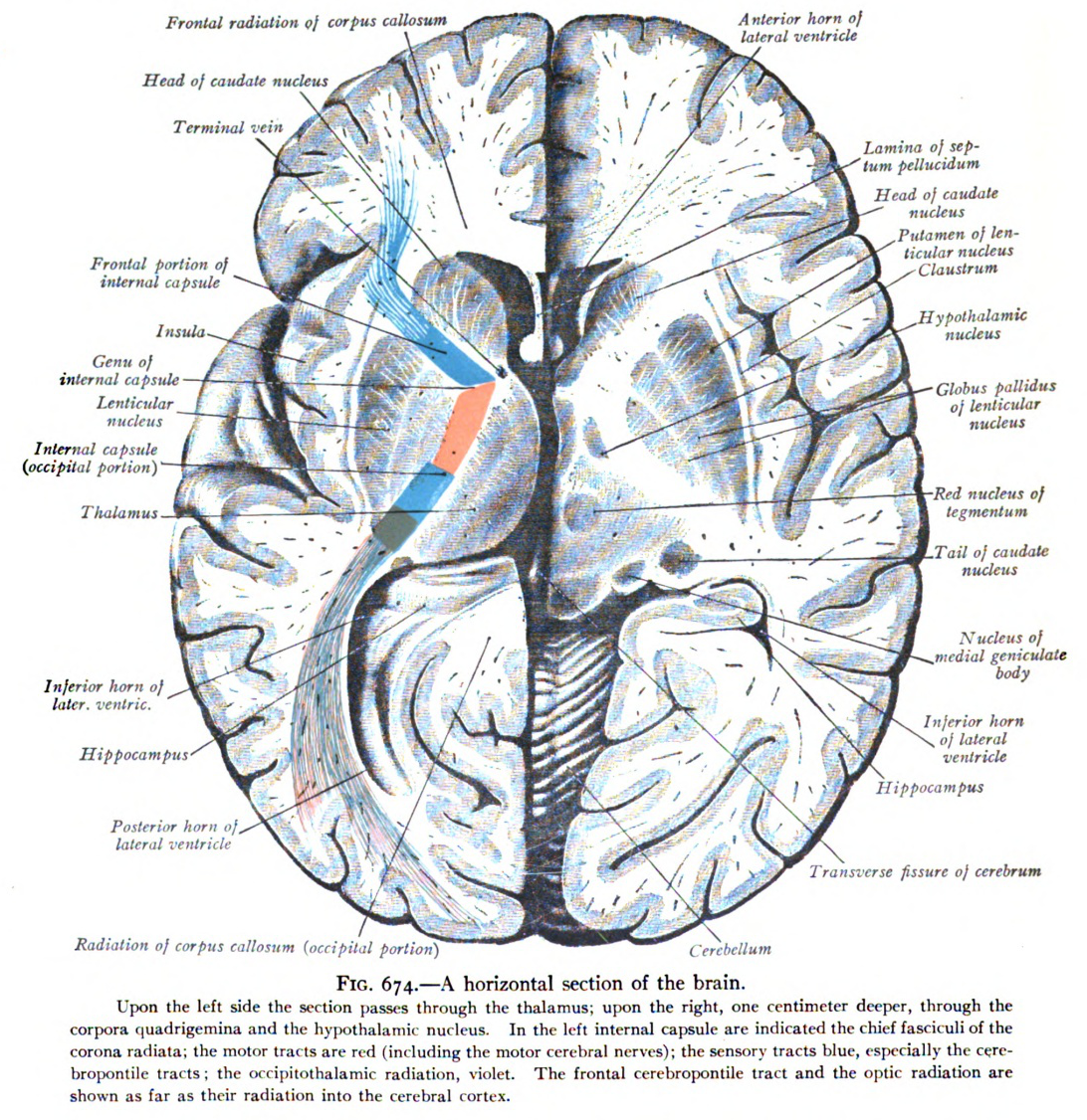 An anatomical illustration from Sobotta's Anatomy 1908 edition.